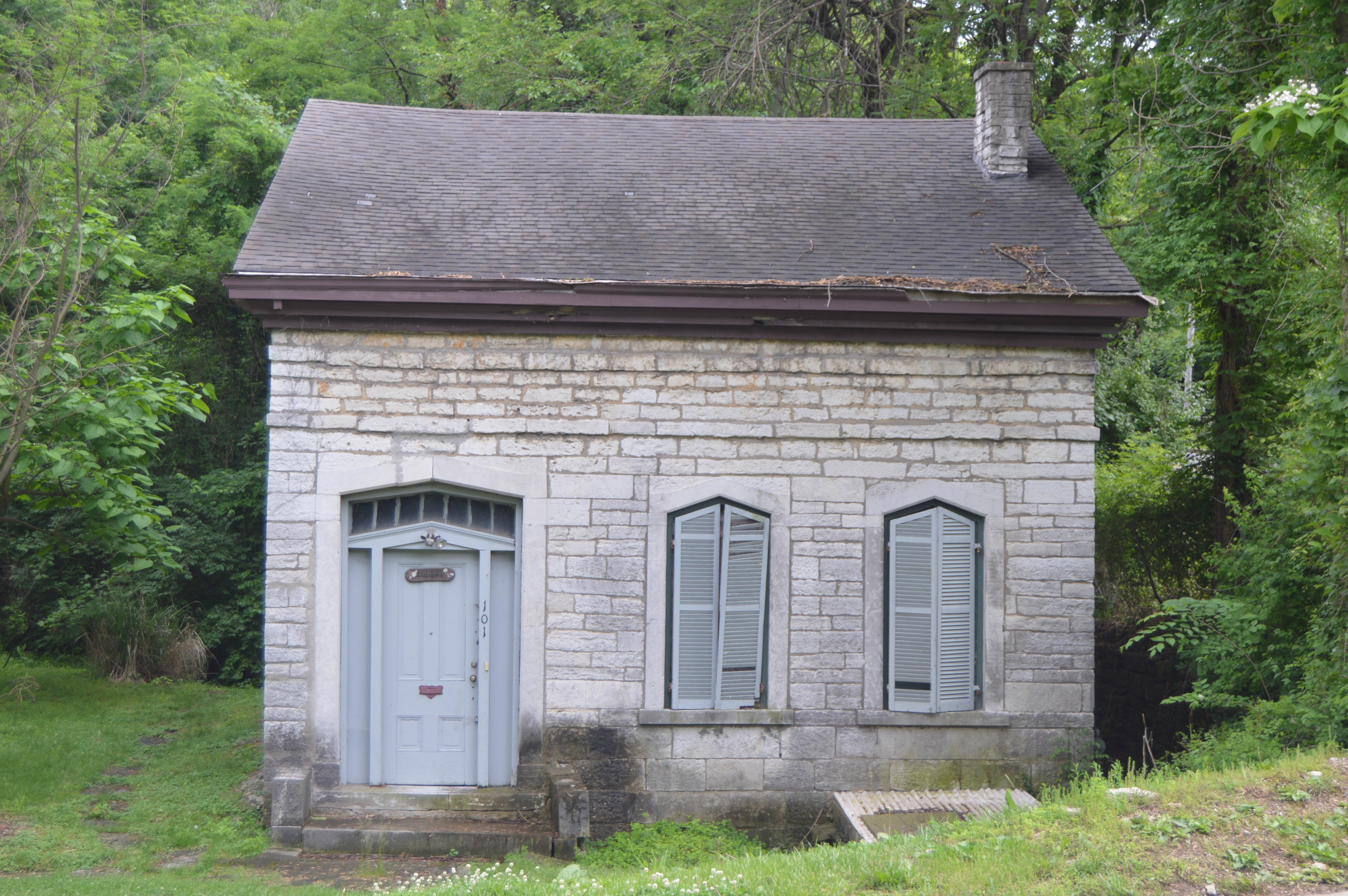 Front of the Guertler House, located at 101 Blair Street in Alton, Illinois, United States. Built in 1854, it is listed on the National Register of Historic Places.